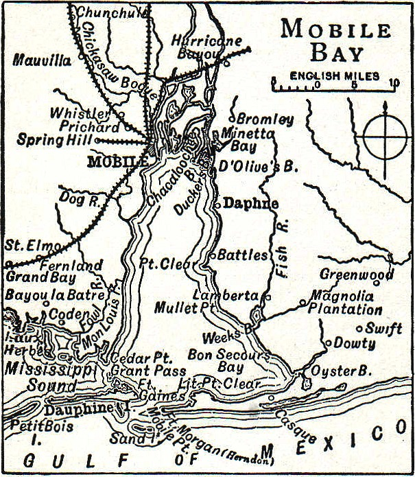 Map of Mobile Bay, Alabama, and surrounding towns.